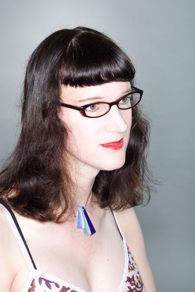 Photo of Charlie Jane Anders, photo by Gregory Bartning